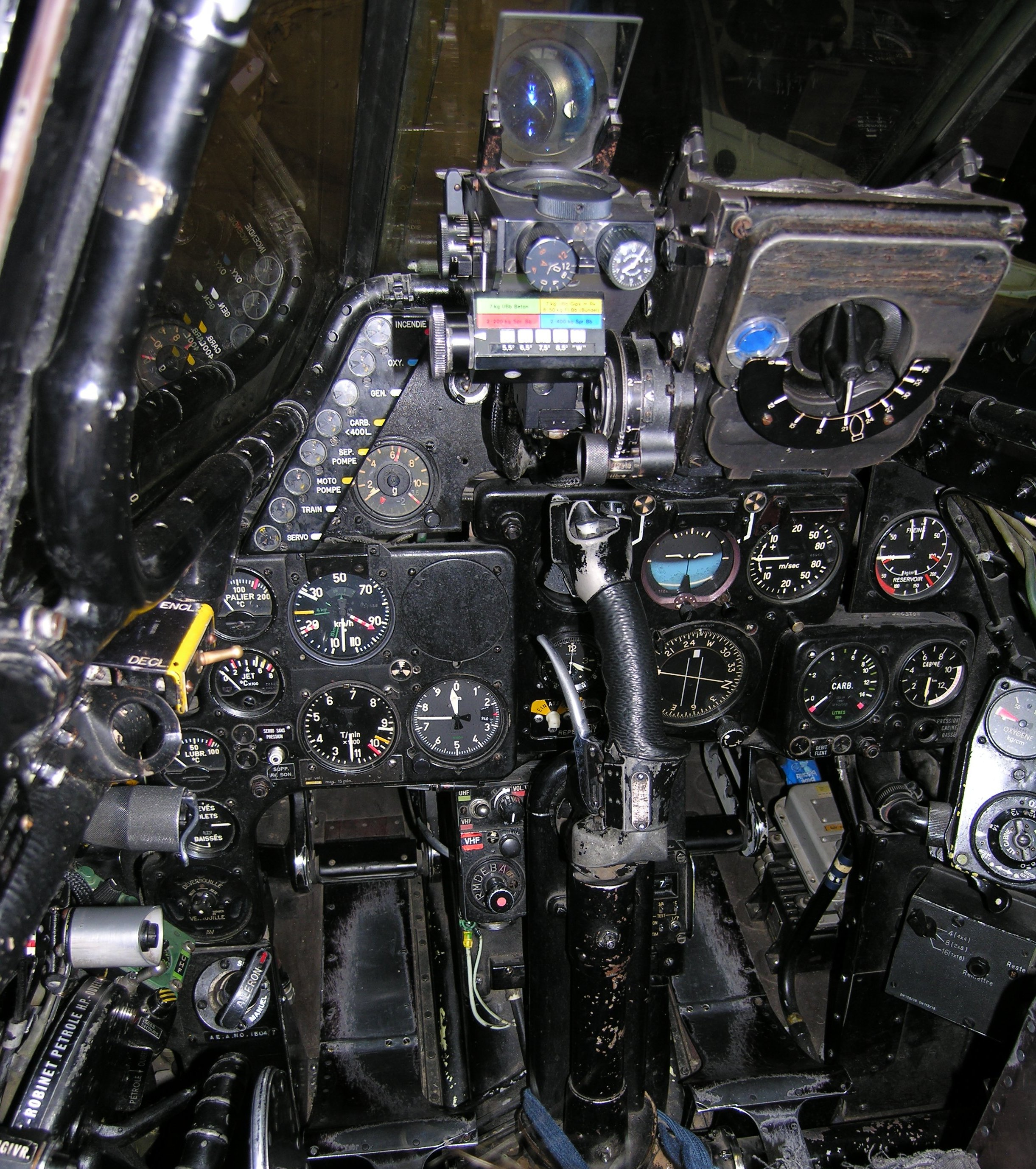 The cockpit of the Swiss jet fighter, the single seat DH 112 FB 50 Venom. Note the MIs on the left and fuel contents lower right. DH 100 had 5 fuel gauges on the centre pedestal. Picture taken in the military aviation museum, Dubendorf (photographing seems allowed there) by Audrius Meskauskas, Audriusa 14:54, 10 February 2006 (UTC).